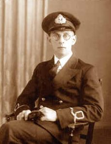 Studio photograph of John Bridge GC, GM & bar